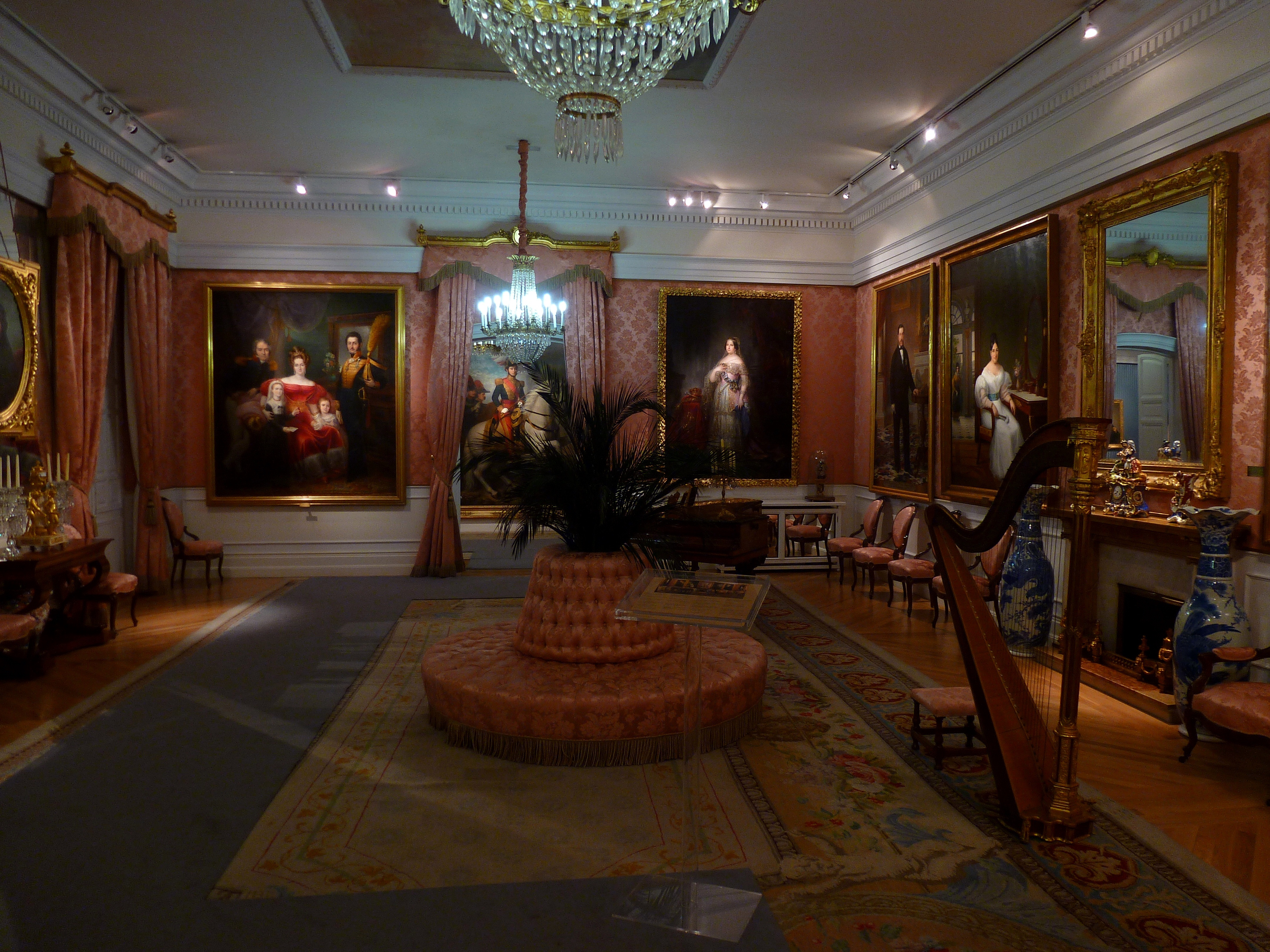 Room IV, former ballroom.